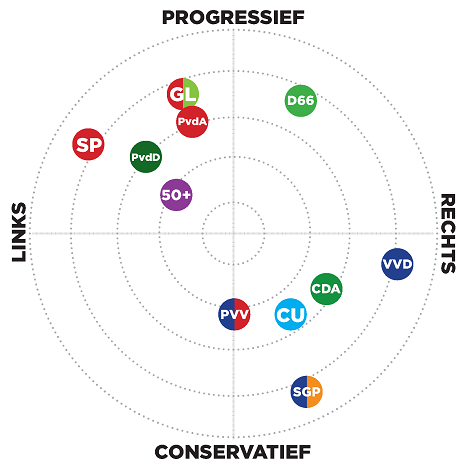 The Dutch political landscape in 2012 according to Kieskompas.